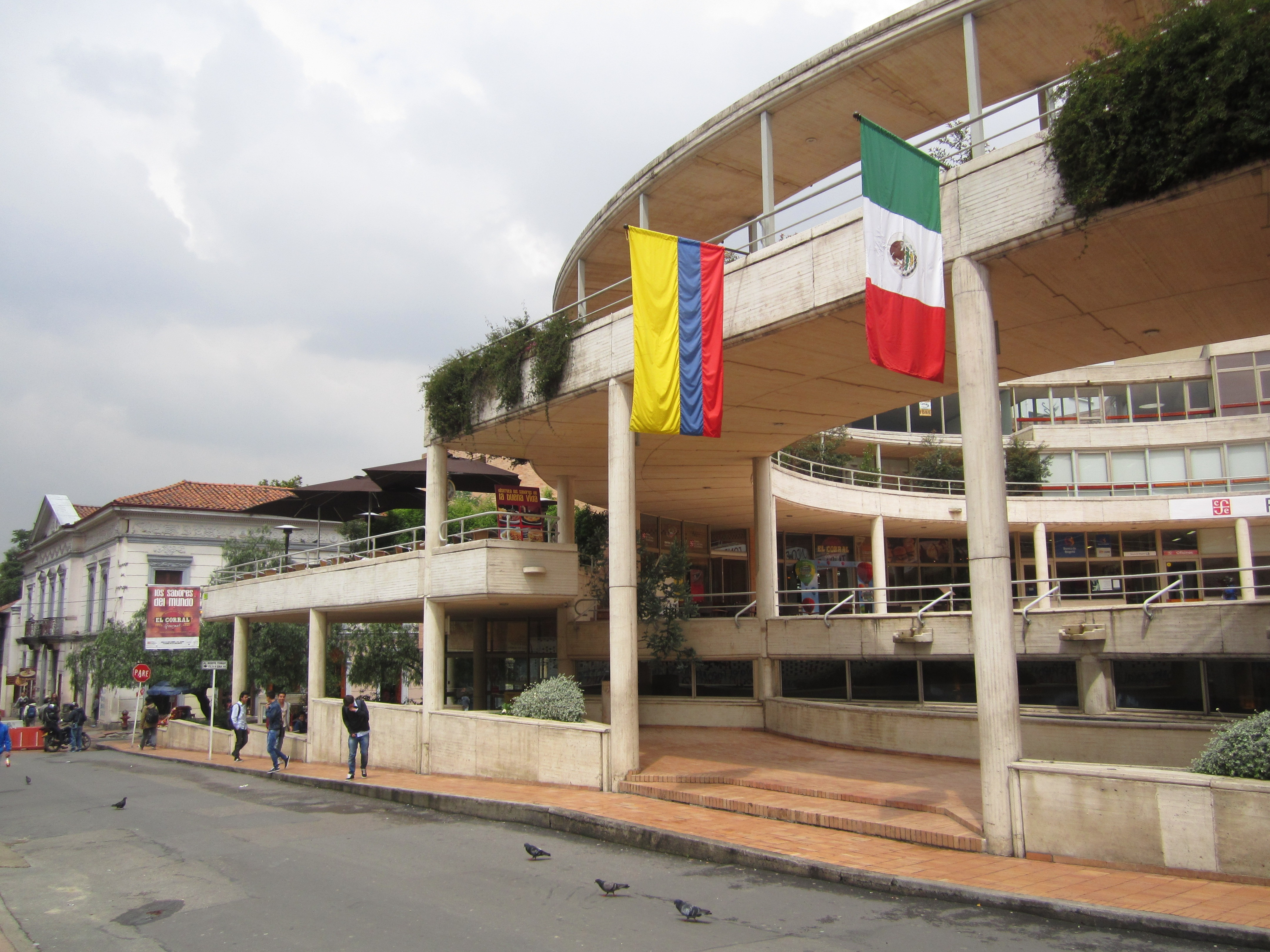 Bogotá